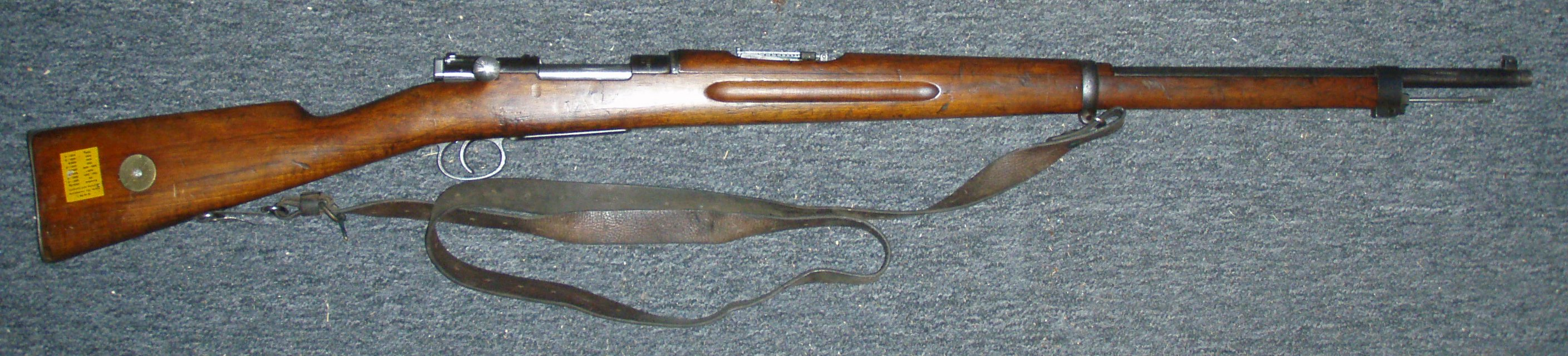 Swedish Mauser model 96 in 6.5x55 - right side